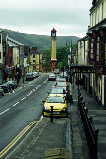 Tredegar in Gwent, Wales. Looking down Castle Street towards the town clock.